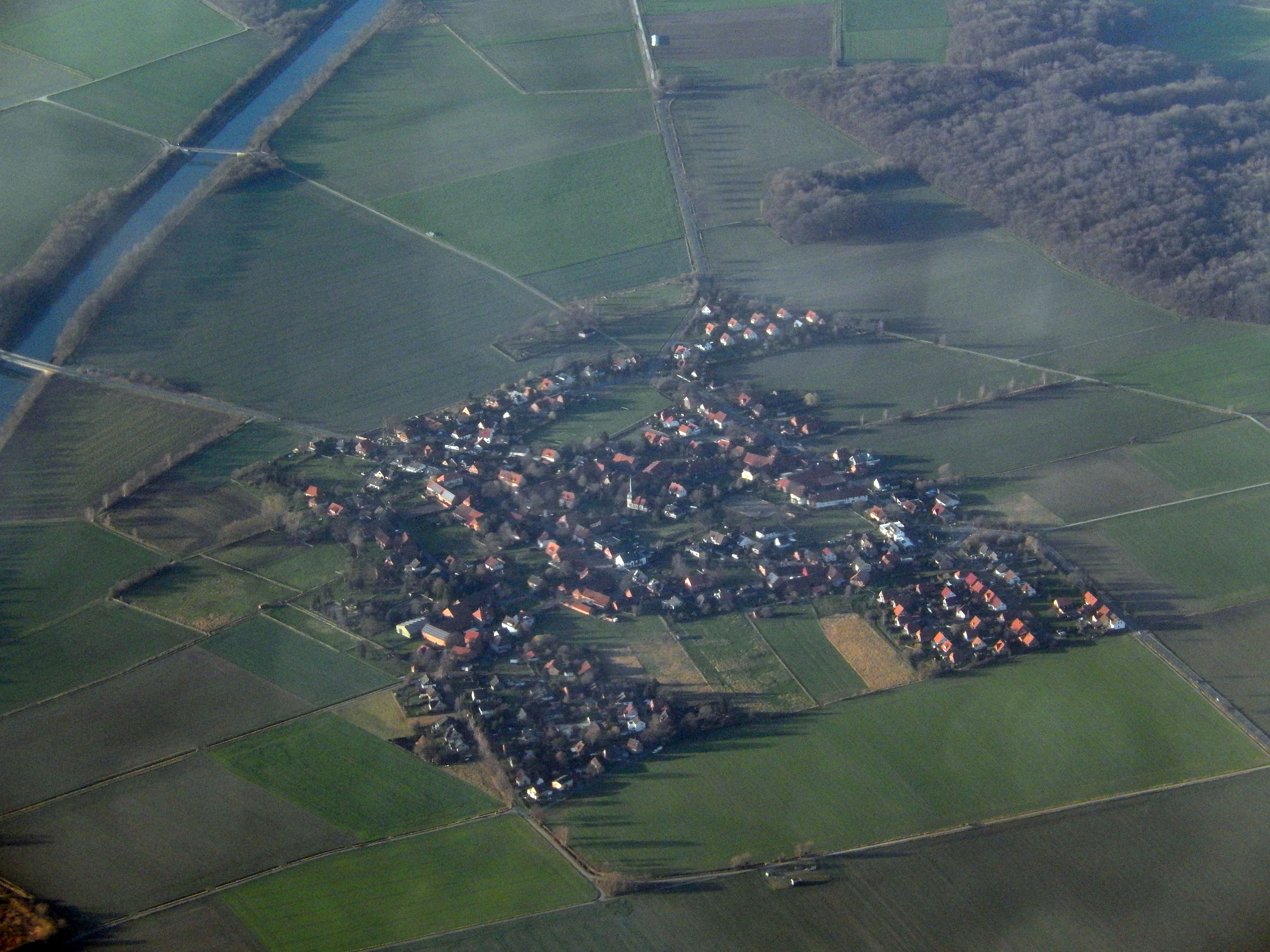 Aerial photo of Wassel, Germany.